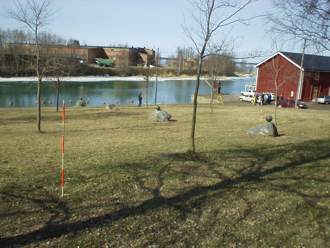 Measurement of post glacial rebound of the Baltic shore in Vaasa (Finland). The stones with metal balls mark the rise of the land over the times.